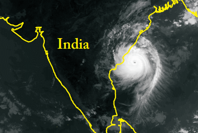 Cyclone 07B - over the Godavari Delta, Andhra Pradesh State, during 6-7 November 1996, with wind speed to 230 km/hour